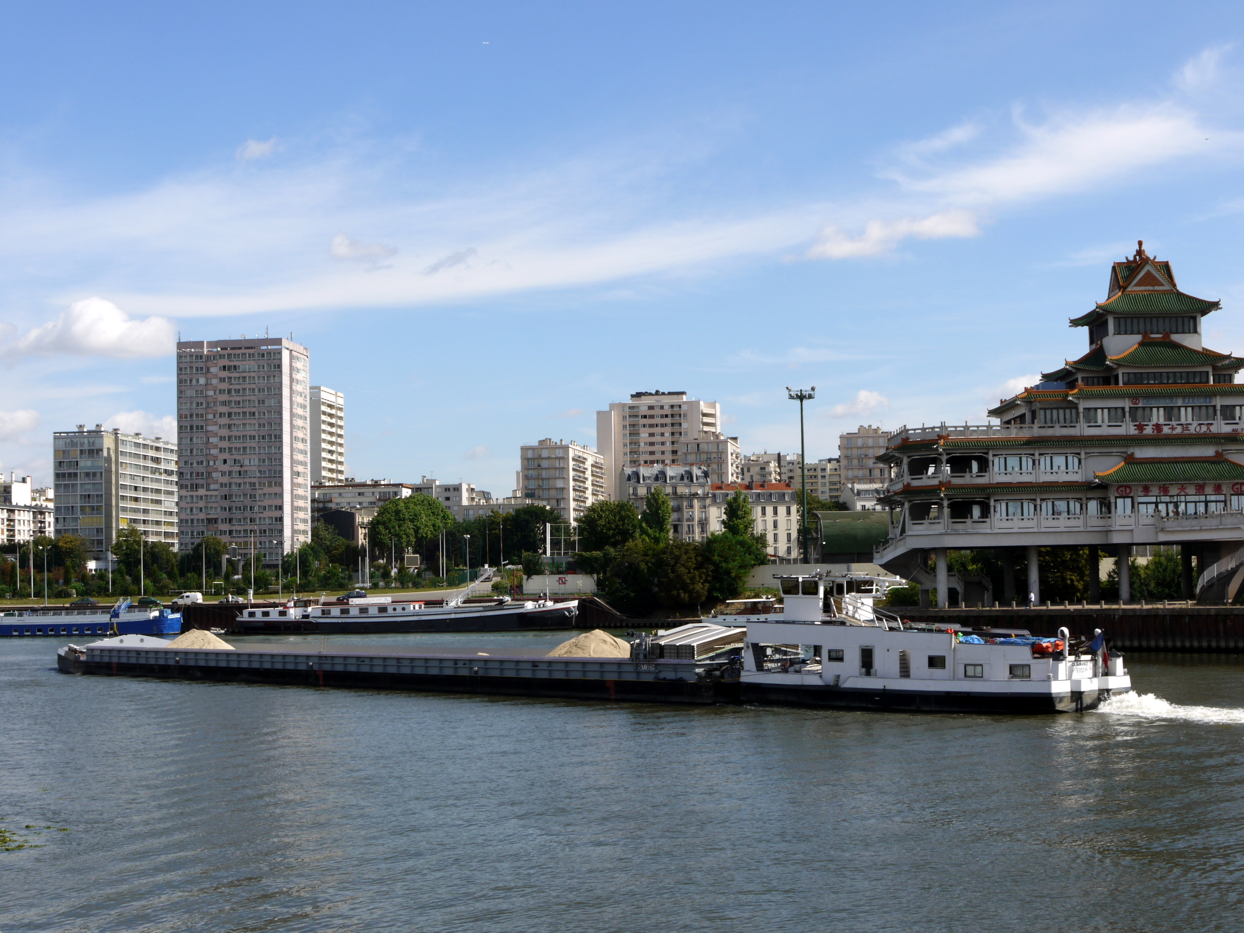 Barge and tugboat on the river Seine near Paris